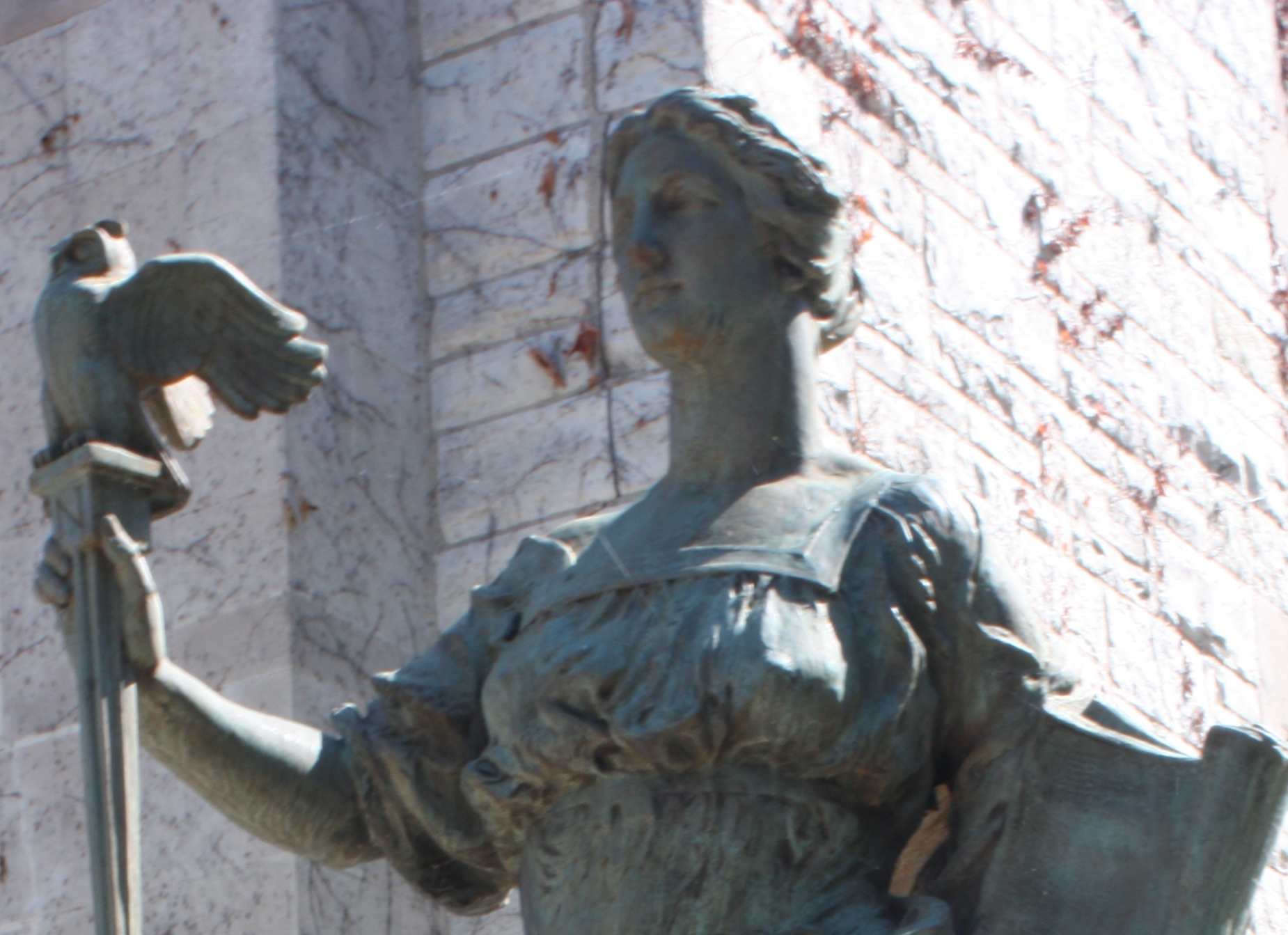 Detail from Hermon MacNeil's statue Intellectual Development, Evanston IL. Erected in 1916 and in public domain due to pre-1923 display, see here